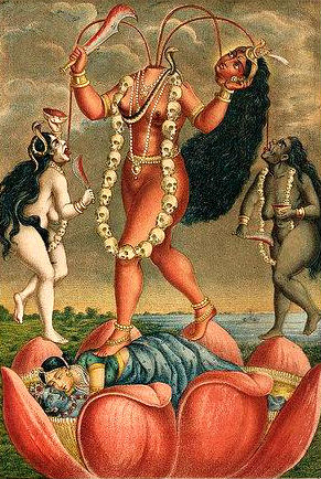 Calcutta art studio Chinnamasta